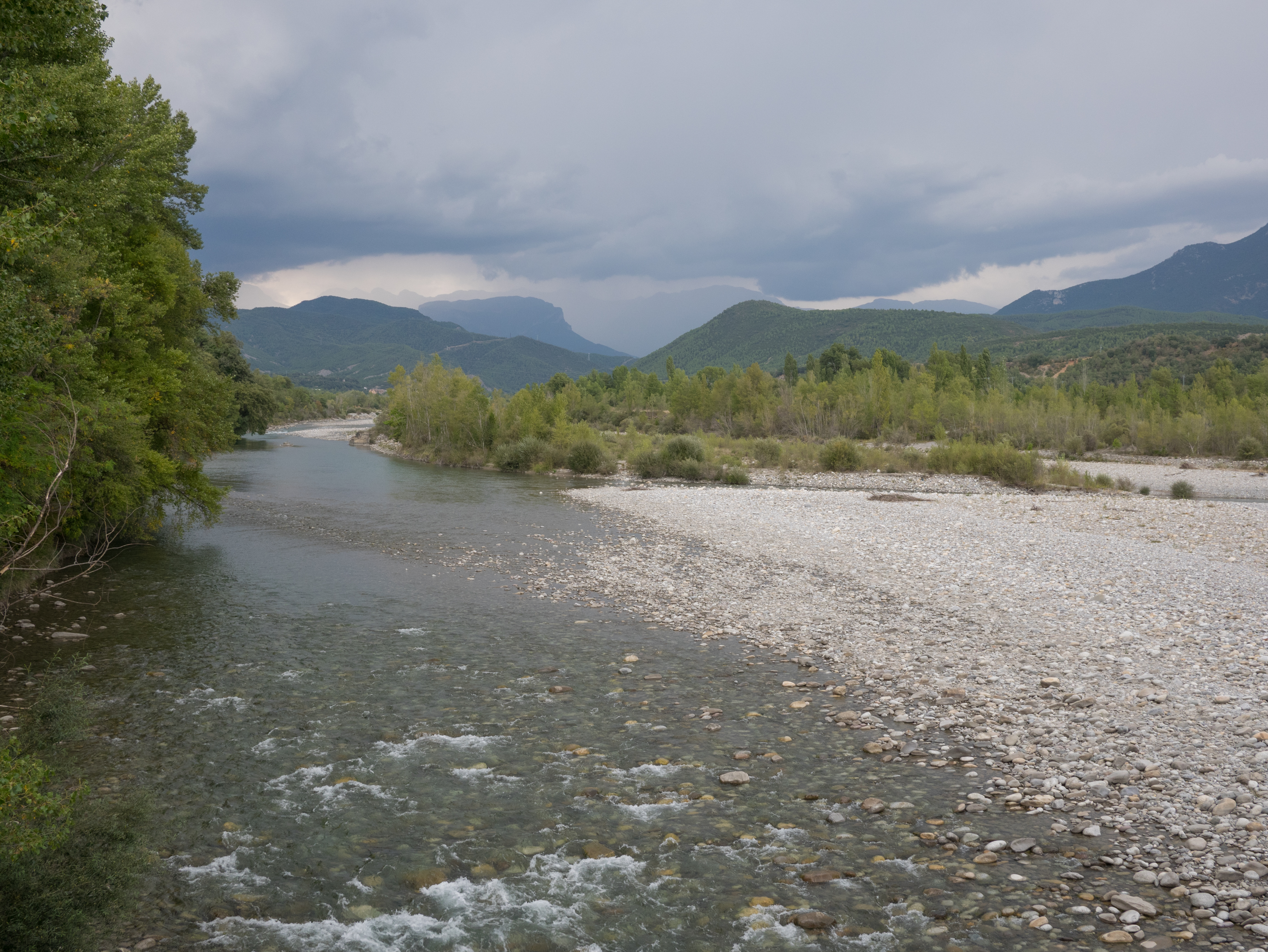 Cinca river in Aínsa. Sobrarbe, Aragón, Spain